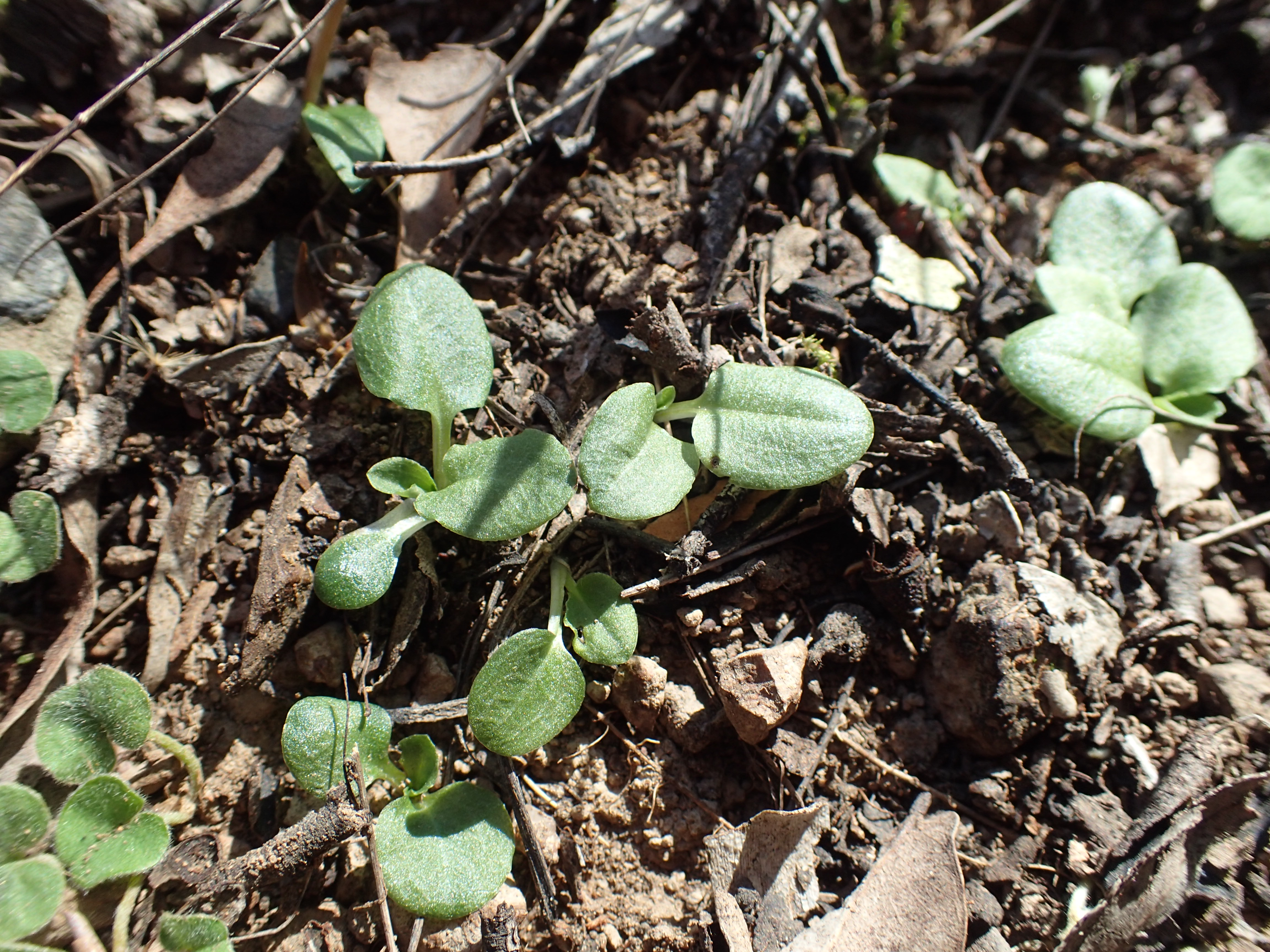 Rosette leaves of Pterostylis obtusa, near Mihi Falls in Oxley Wild Rivers National Park